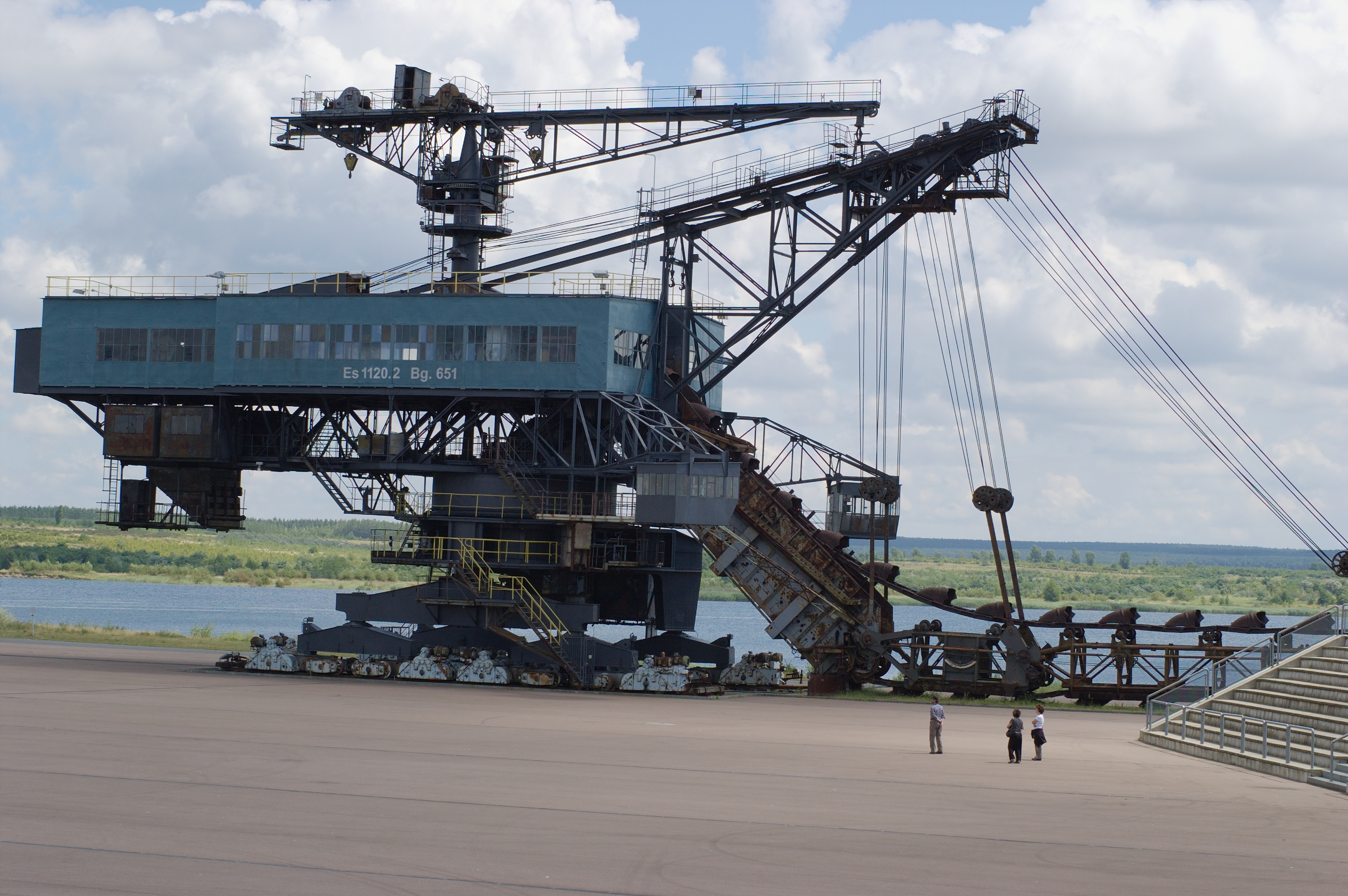 Retired mining excavator (Es 1120.2 Bg. 651), Ferropolis, Saxony-Anhalt, Germany